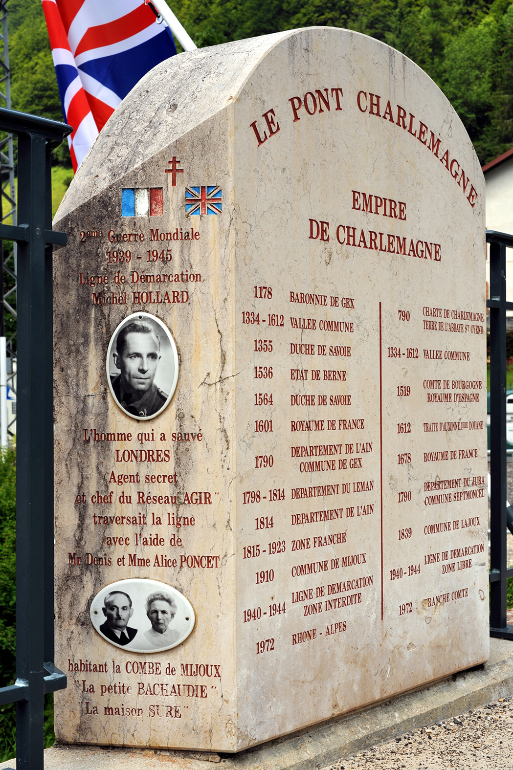 Memorial stone on the Pont Charlemagne crossing the Valserine in Mijoux; Ain and Jura, France. 4th route of Michel Hollard from Saint-Claude via Mijoux and Combe du Faoug to La Rippe.